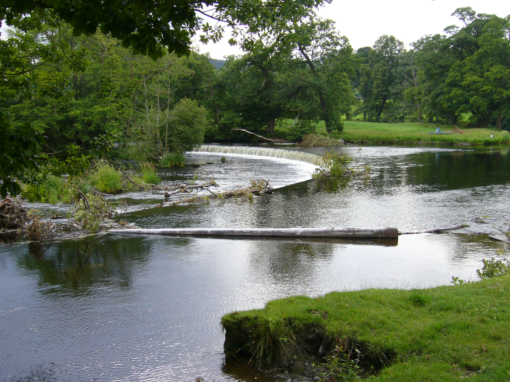 The chain bridge about 300 metres downstream from the falls The Horseshoe Falls at grid reference SJ 195 433 about three miles west of the town of Llangollen, Denbighshire, Wales. The feed to the Llangollen Canal is off the bottom left corner of this image. A floating tree trunk is secured by chains across the water to prevent debris from entering the canal.